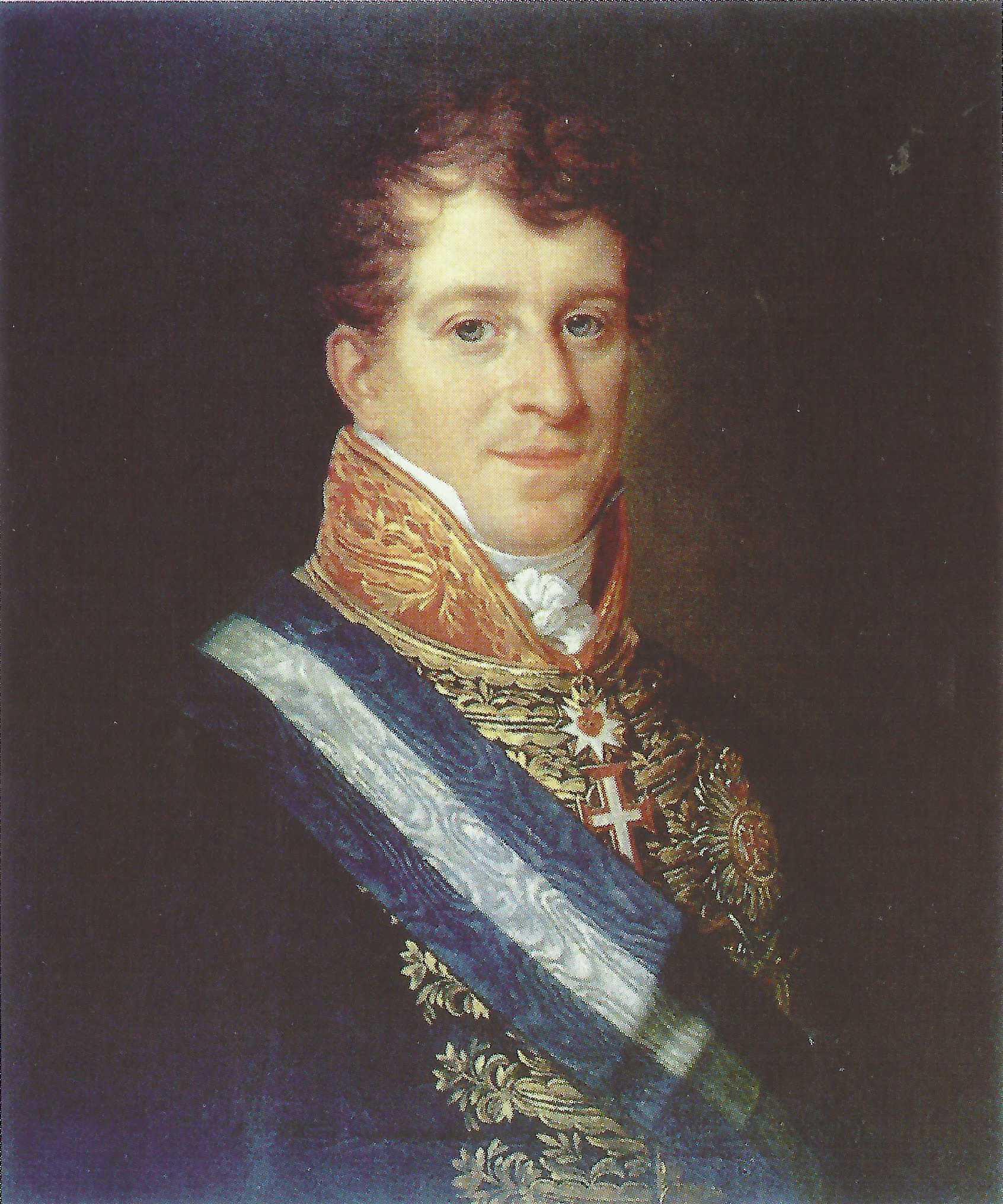 Portrait of D. Pedro de Sousa Holstein, still as the Count of Palmela.